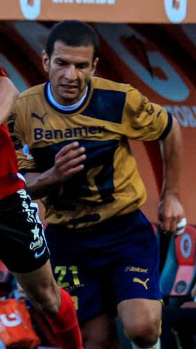 Former Mexican footballer Jaime Lozano